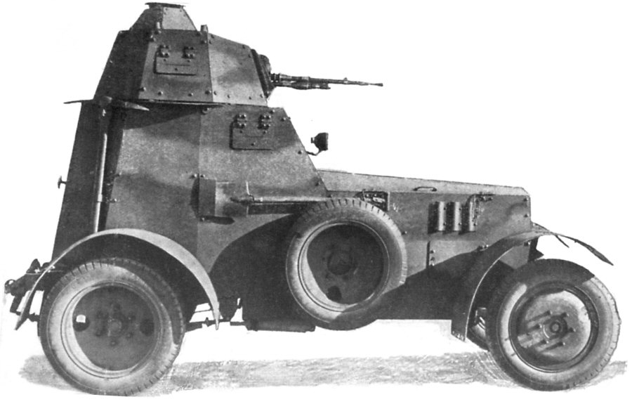 Armored car pattern 34